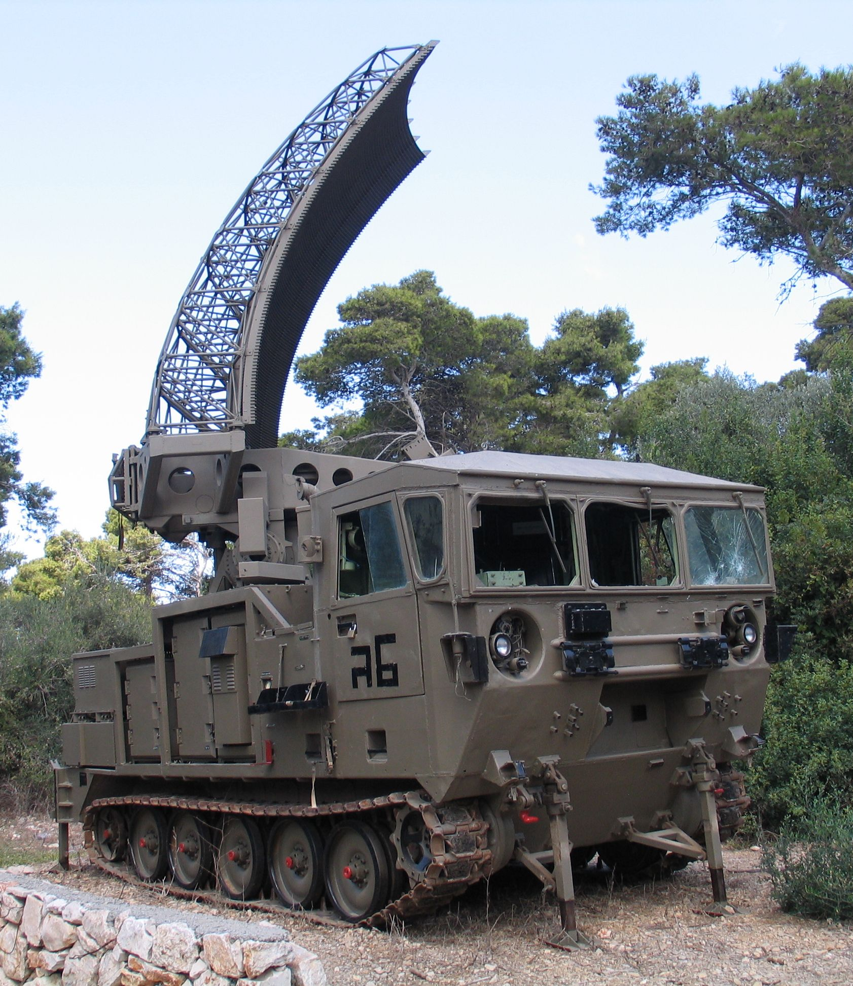 Israeli Shilem artillery forces radar in Beyt ha-Totchan, Zichron Yaakov, Israel.